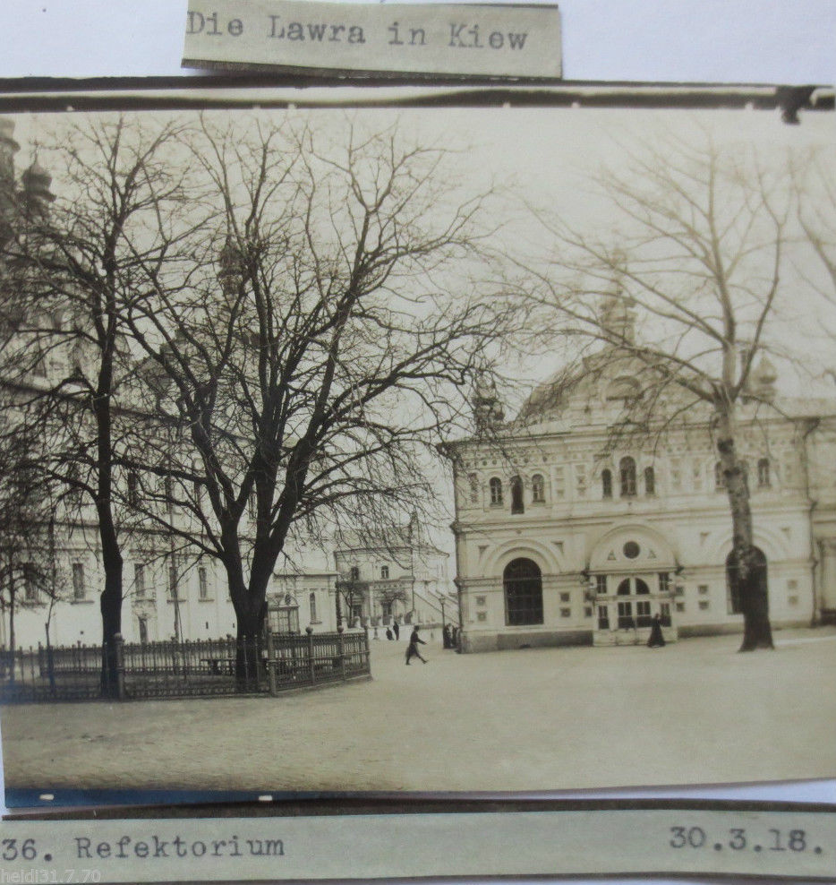 Photo of Ukraine from an album of an unknown German soldier taken during World War I.